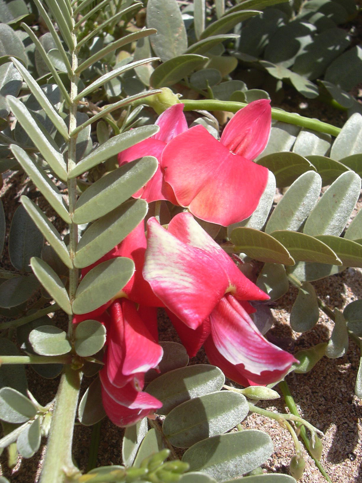 Sesbania tomentosa (flowers). Location: Maui, Kanaha Beach